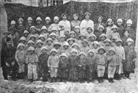 Armenian Genocide Orphans from Kastamonu